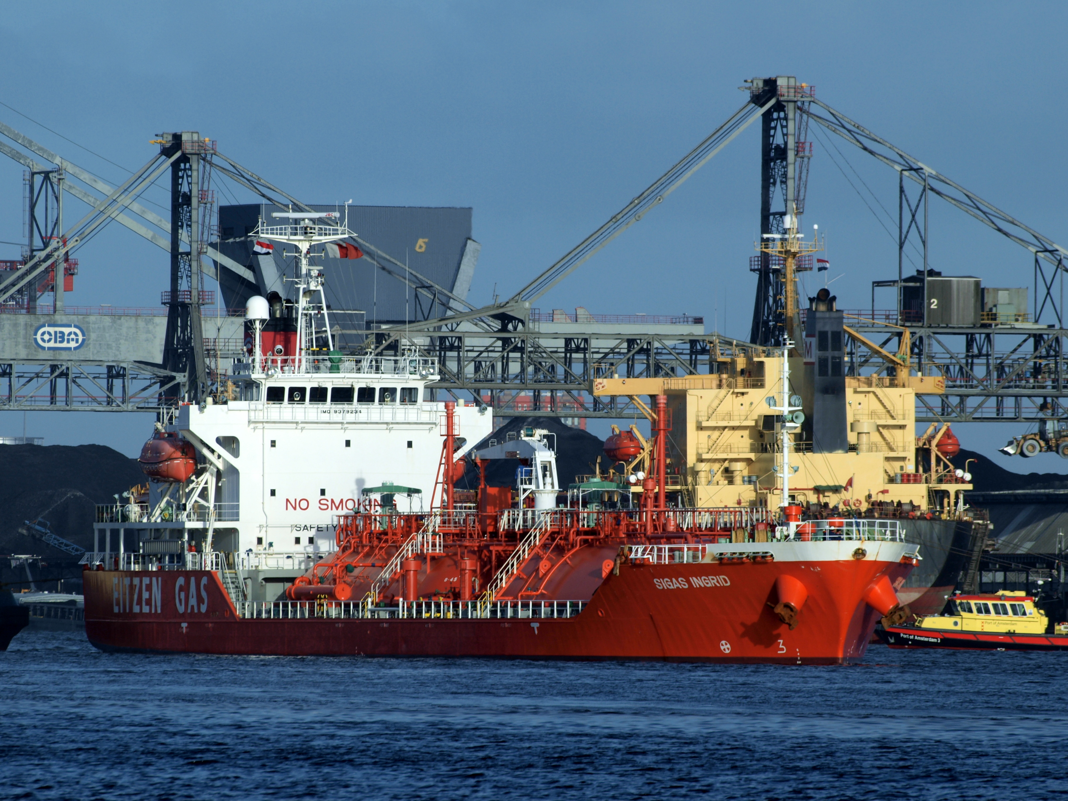 Ship photographed at the Port of Amsterdam, The Netherlands.